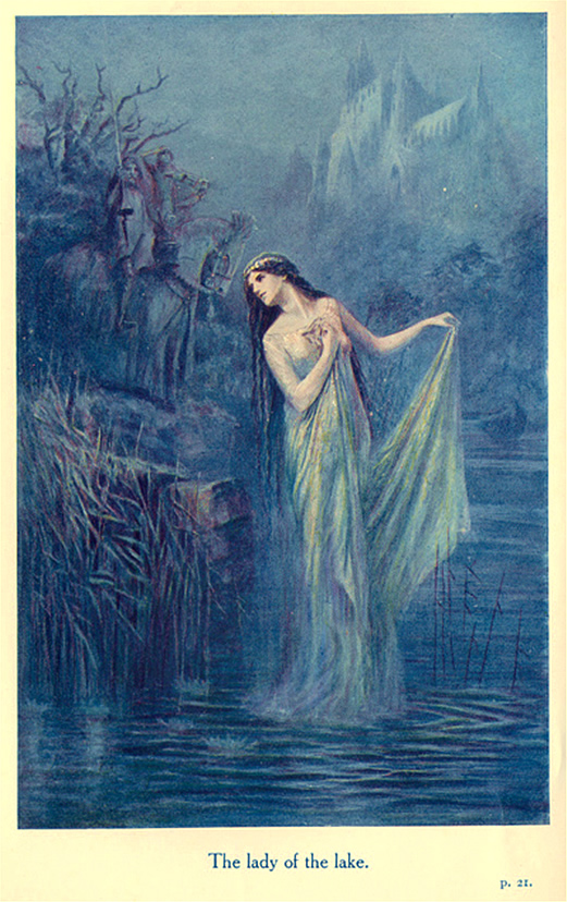 scan of illustration at title page in a book of Lady of the Lake.